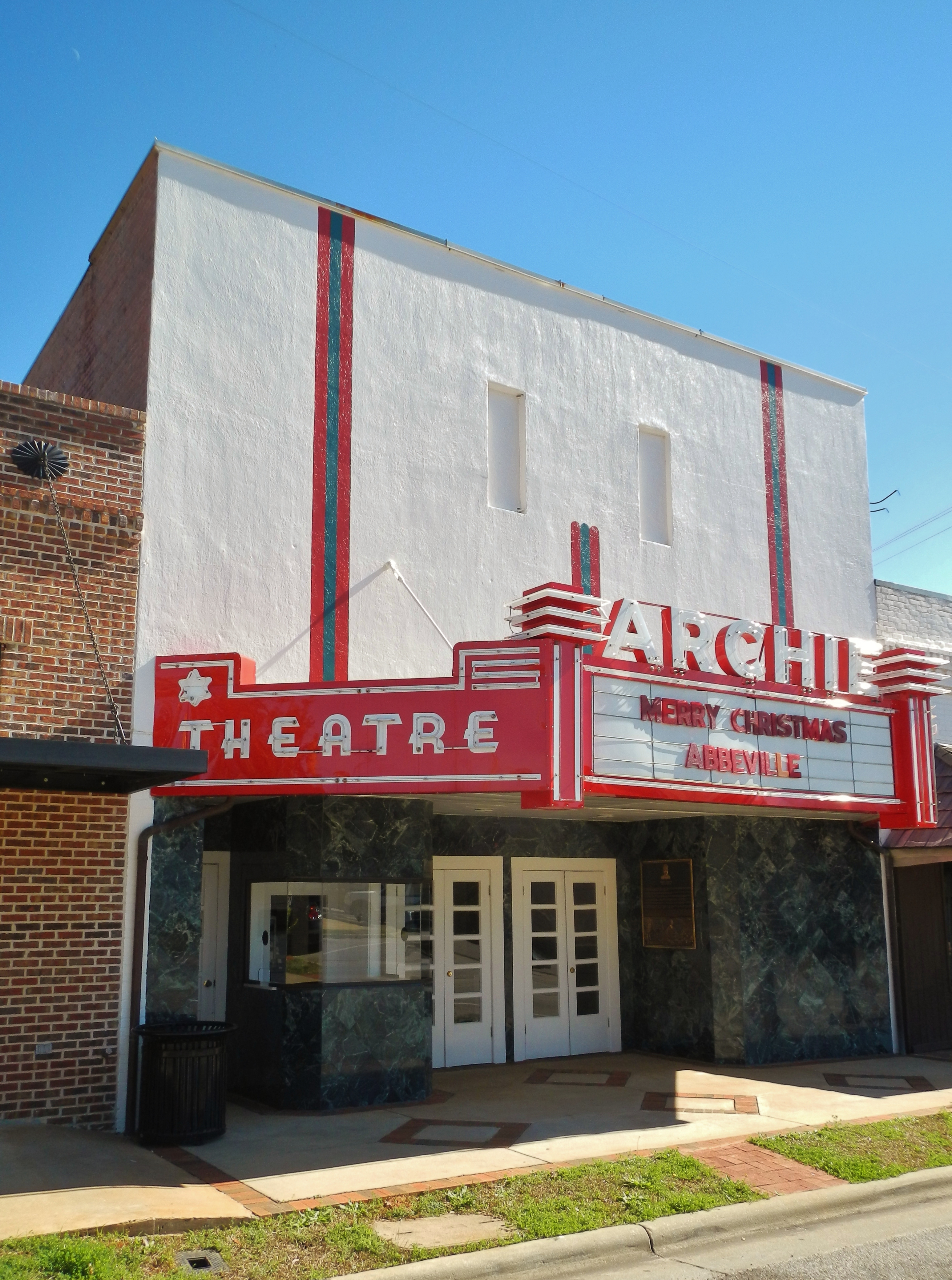 This is a photograph of the Archie Theatre (circa 1948) located in Abbeville, Alabama.